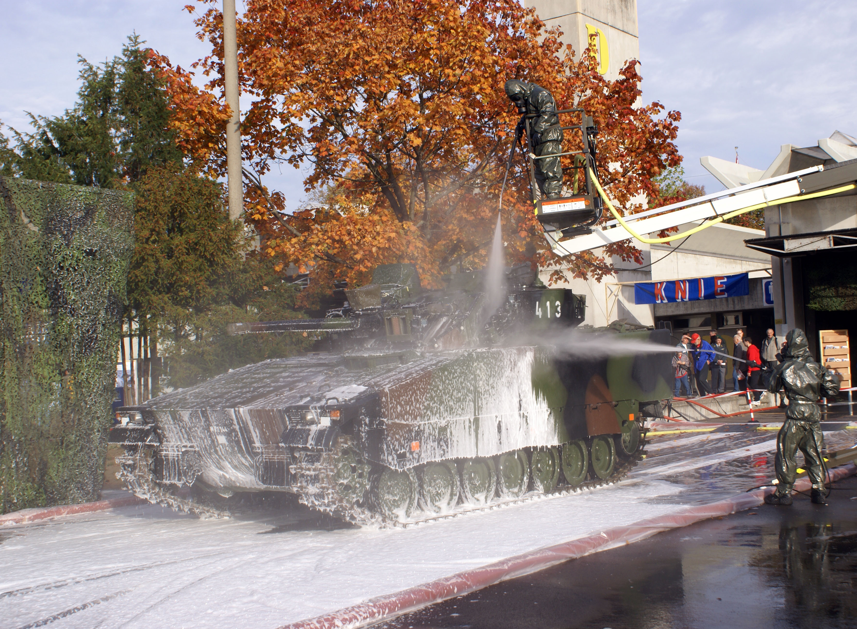 Swiss Army. Demonstration decontamination of a APC Spz 2000 (Hägglunds Combat Vehicle 90).